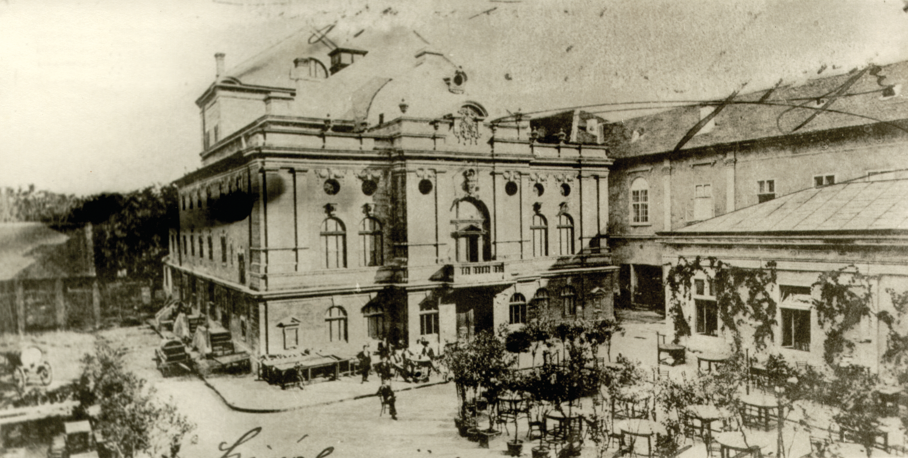 The Building of Serbian National Theatre (Dunđerski’s theatre) built in 1895, postcard (Edition by photographer Josif Singer), Novi Sad, aprox 1900 Srpski (latinica): Zgrada Srpskog narodnog pozorišta (Dundjerskovo pozorište), podignuta 1895, razglednica (izdanje fotografa Josifa Singera), Novi Sad, oko 1900 Српски (ћирилица): Зграда Српског Народног позоришта (Дунђерсково позориште), подигнута 1895, разгледница (издање фотографа Јосифа Сингера), Нови Сад, око 1900.